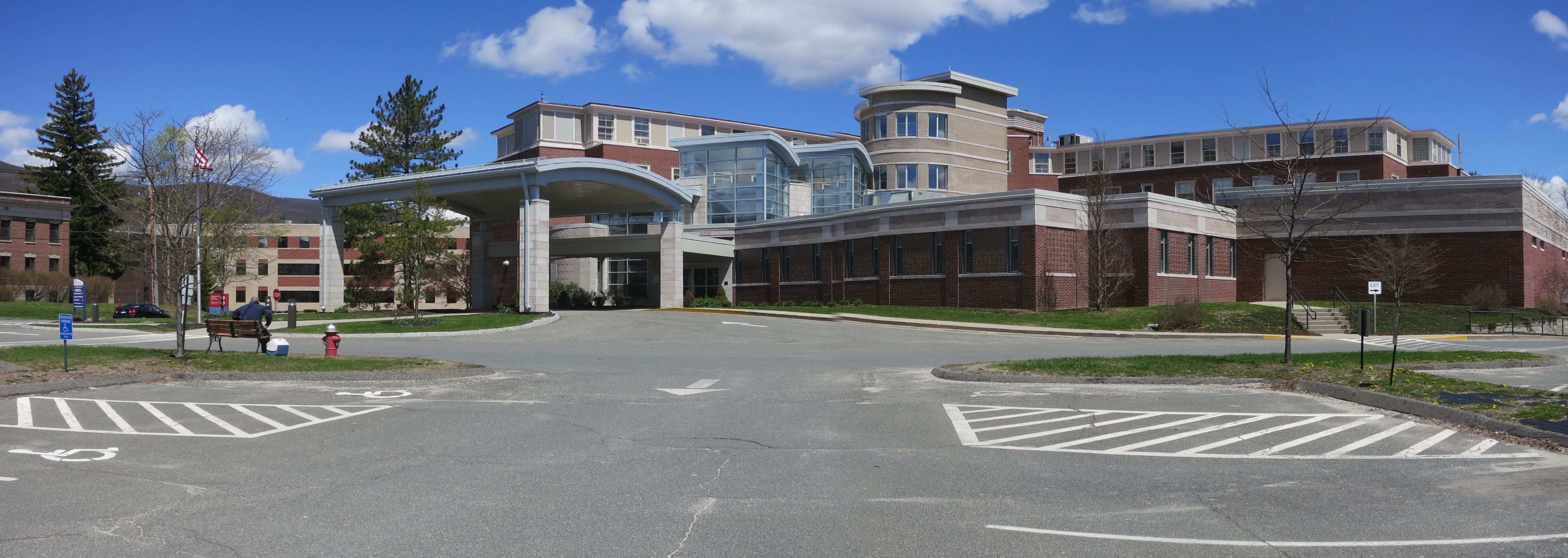 Facility in Chapter 7 Bankruptcy effective April 3, 2014